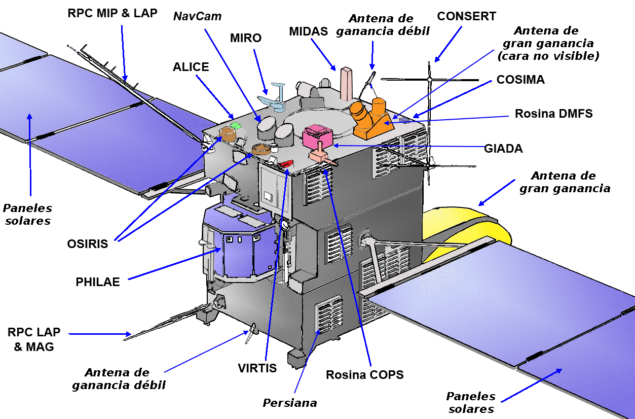 Scheme of Rosetta spacecraft